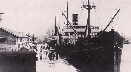 Port of Jinsen(Incheon)